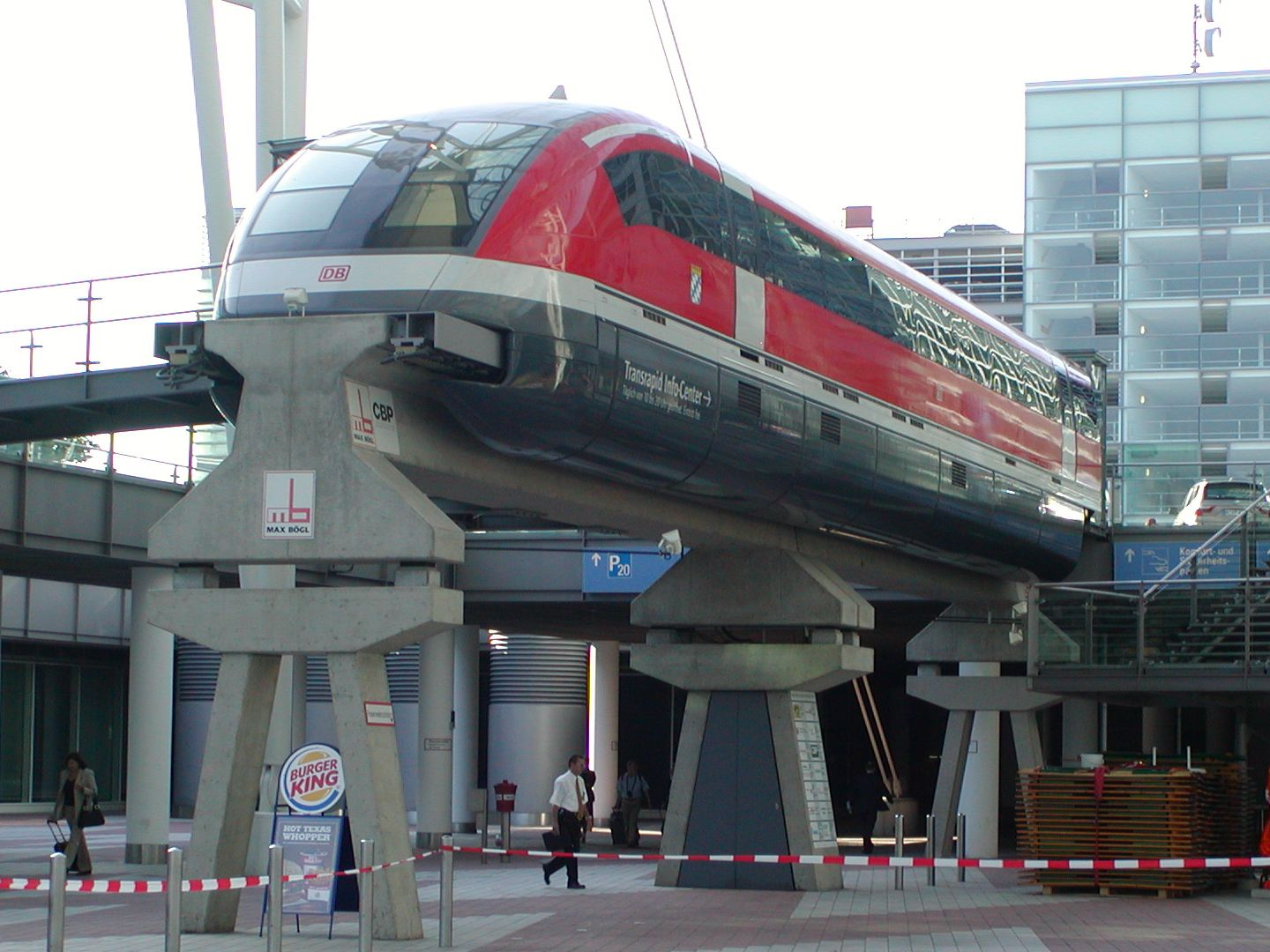 Transrapid 07 at Munich Airport Center, Munich, Bavaria